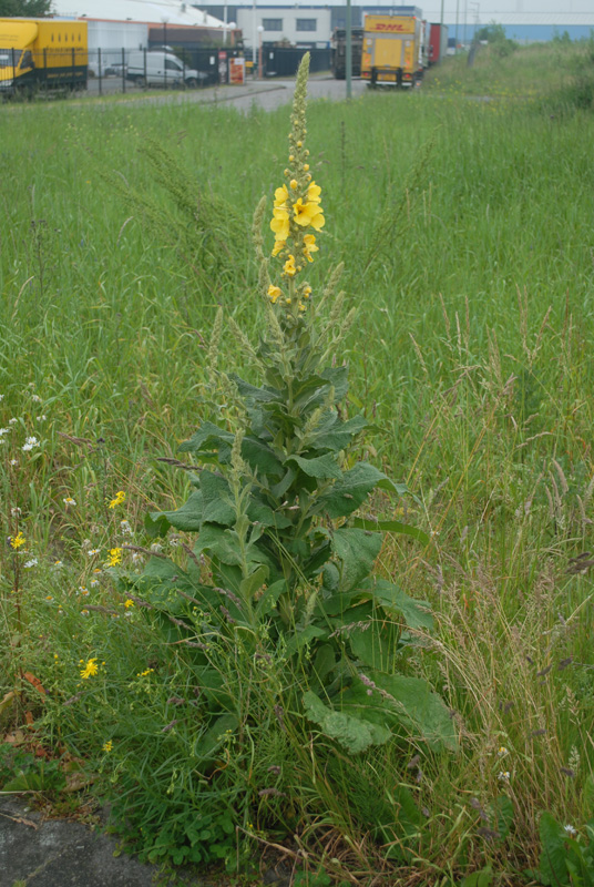 This is a picture of a plant which I suspect is a verbascum variety. Perhaps somebody can distinguish it. It looks like Verbascum phlomoides (which is extremely rare where I live) so it is probably Verbascum thapsus or some other variety.